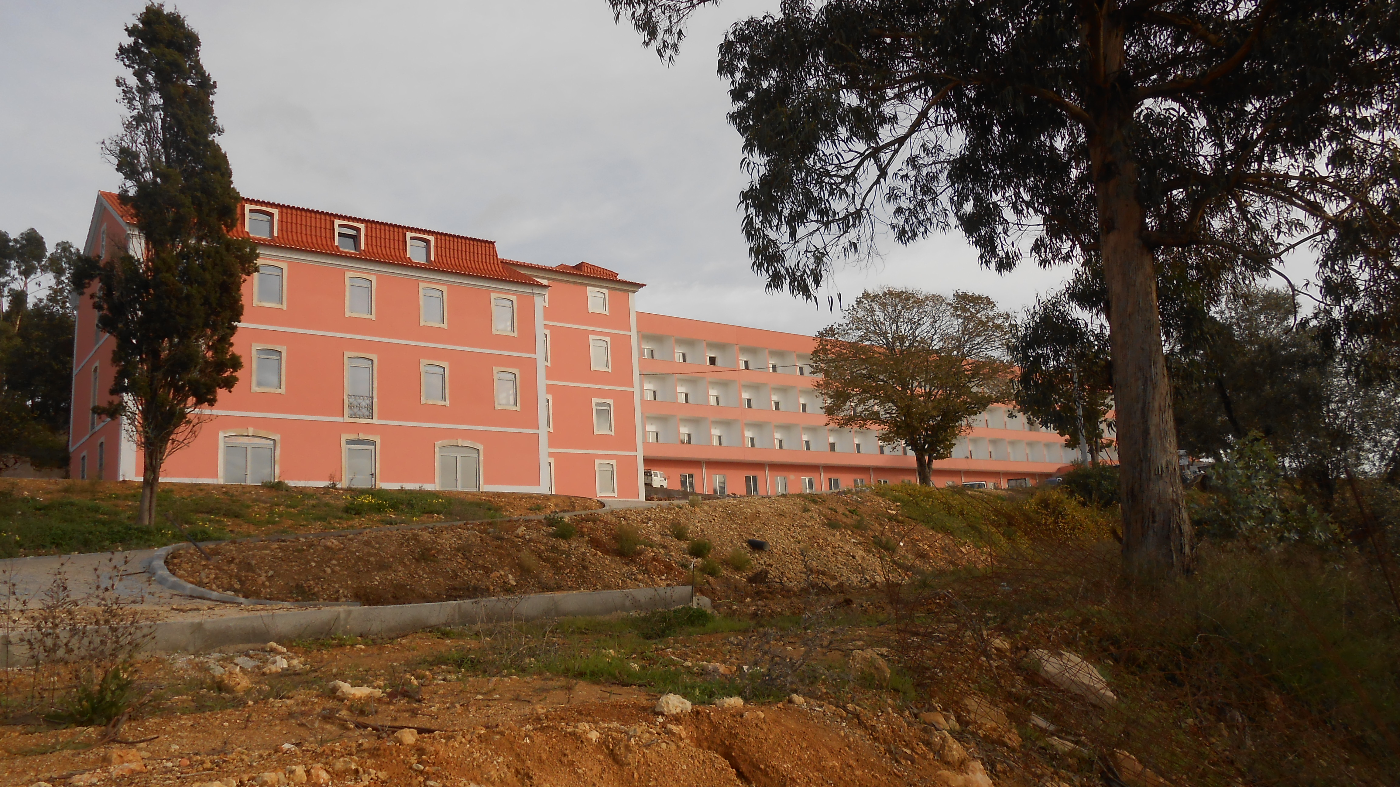 The Palace Hotel & Spa Termas do Bicanho as seen in november of 2015, when it was about to be completed. It opened its doors to the public a few weeks later.